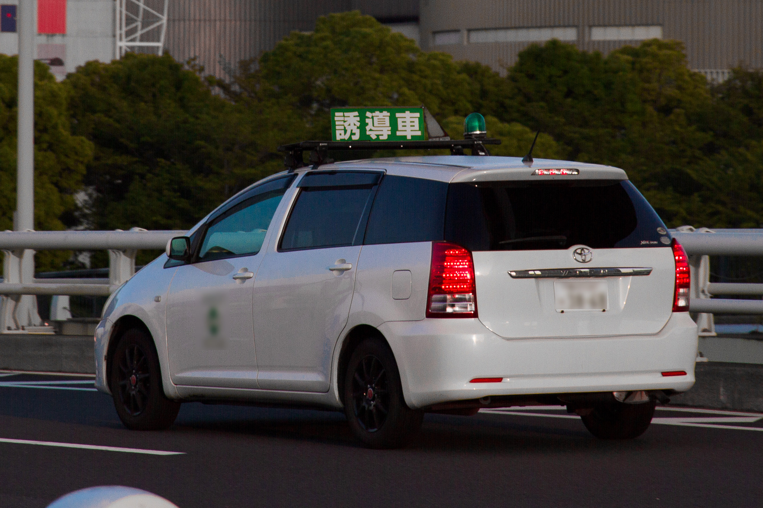 Escort car for oversize load in Japan. "Escort Car（誘導車）" sign is mounted on the car.